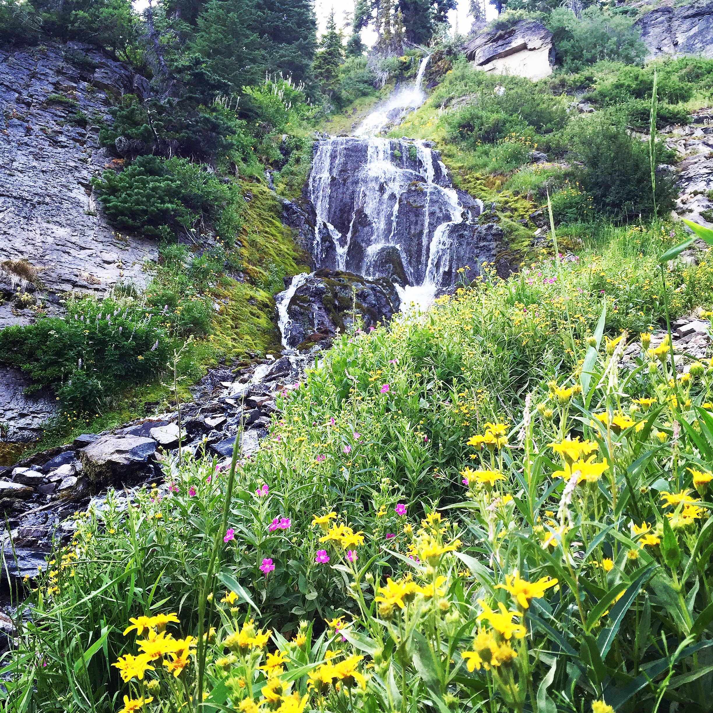 Crater Lake National Park - Vidae Falls